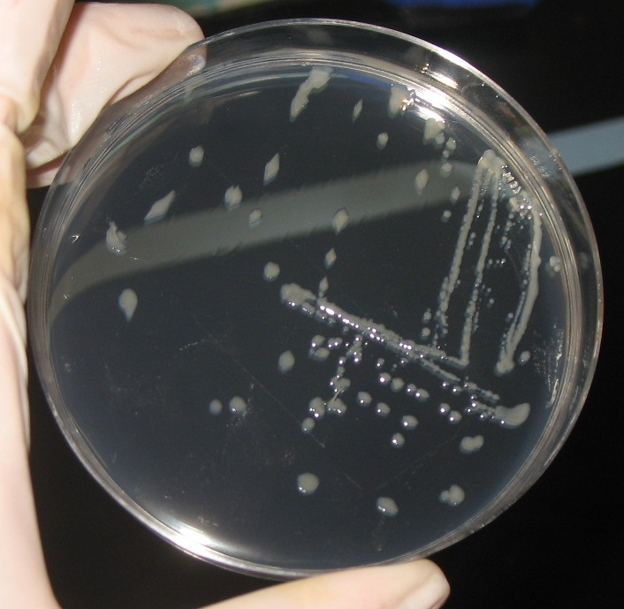 This is a photo of a Luria Broth Agar plate streaked with Escherichia coli strain AB 1157.